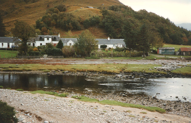 Cottages at Corran from river